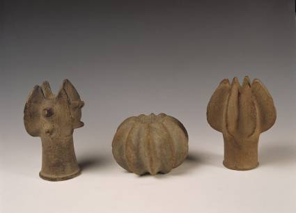 Moche stone mace-heads. Larco Museum Collection. Lima-Peru